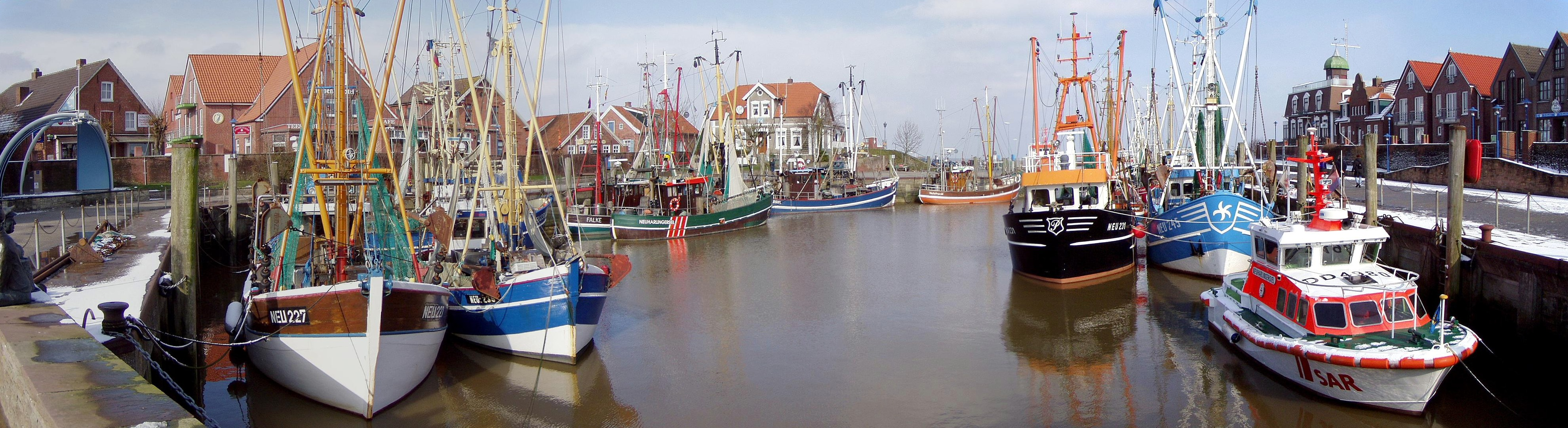 Harbour of Neuharlingersiel, Germany